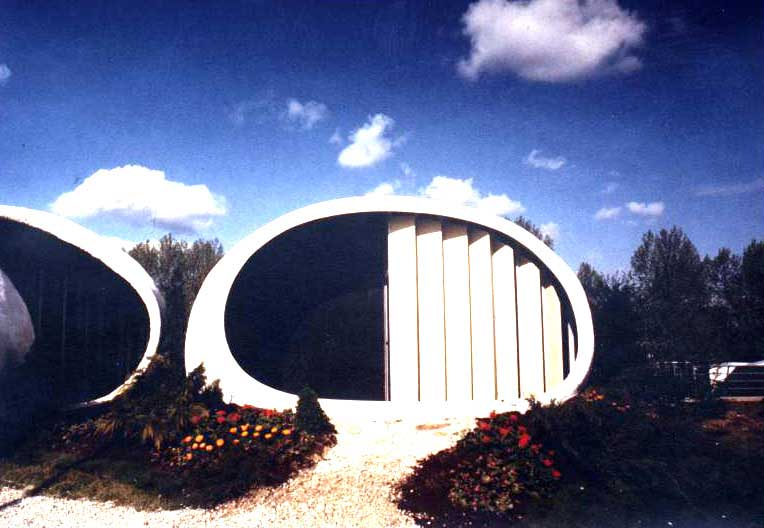 Cellule de motel par Henry Pavie. Bulle en platre projete sur coffrage gonflable. Foire de Paris (1974)